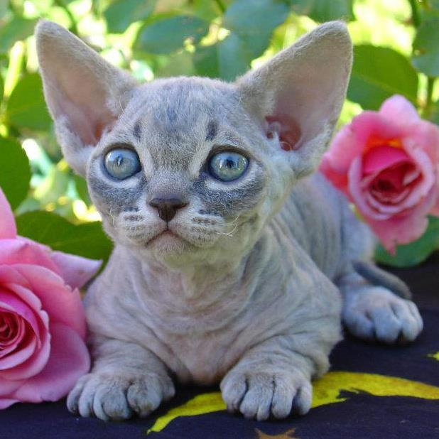 Minskin kitten photo taken in Massachusetts by Minskin breed founder Paul McSorley, with permission to post this photo (I am Paul McSorley).